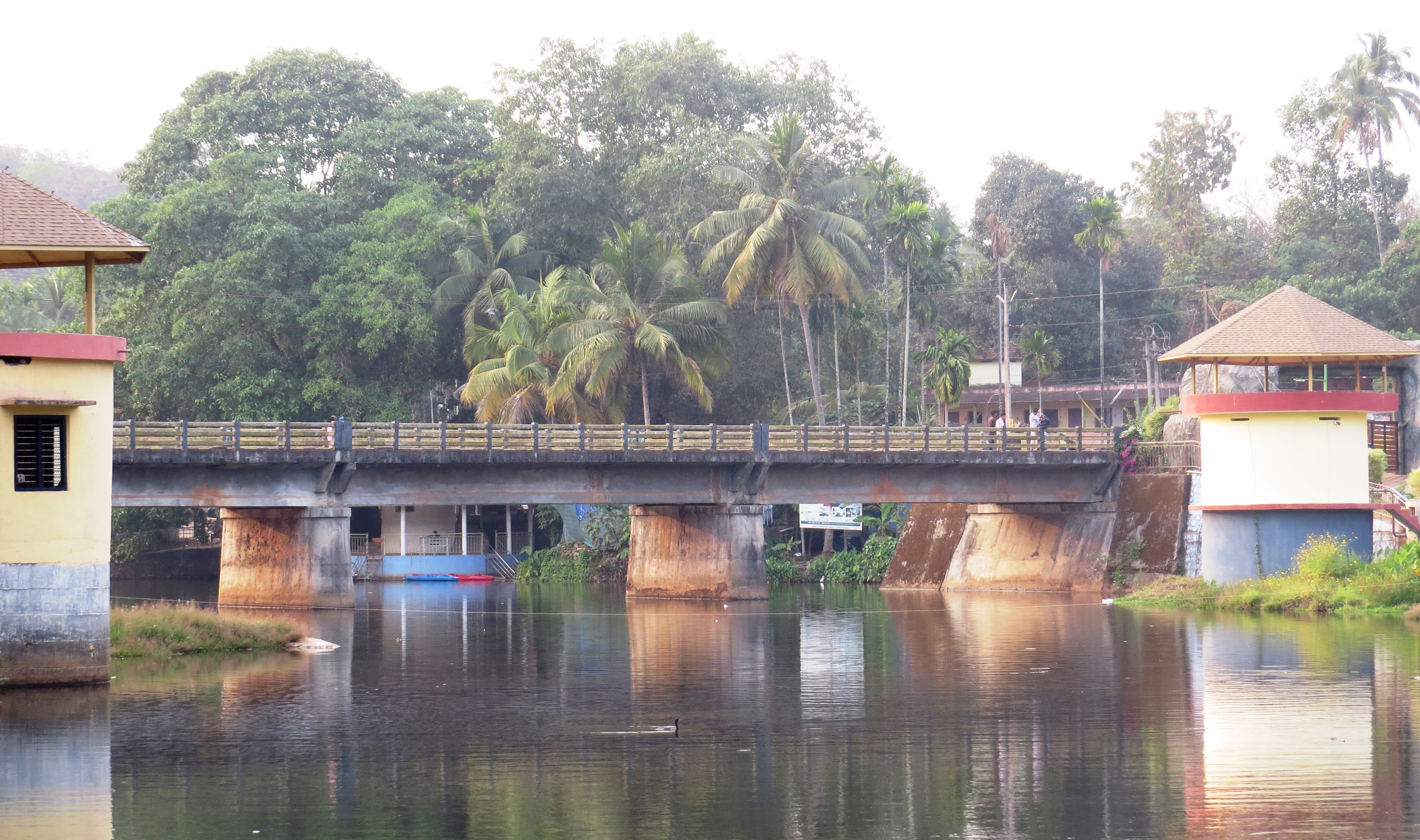 Karuvarakundu Bridge